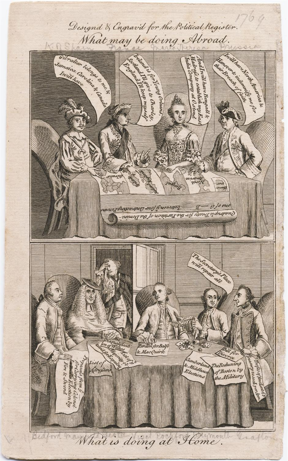 Title: What may be doing abroad ; What is doing at home [graphic] / Design’d & engrav’d for the Political Register. Published: [London : s.n., 1769] Description: 1 print on laid paper : etching ; sheet 20 x 13 cm. Subject terms: Maps: Great Britain and dominions -- Alliances -- Elections: reference to Middlesex elections, 1769 -- Riots: reference to the riots at St. George’s Fields, 1768 -- Riots: reference to Boston riots, June 1768 -- Reference to the Duke of Grafton’s divorce. Subjects (Library of Congress): George III, King of Great Britain, 1738-1820 --Caricatures and cartoons. Charles III, King of Spain, 1716-1788 --Caricatures and cartoons. Louis XV, King of France, 1710-1774 --Caricatures and cartoons. Maria Theresa, Empress of Austria, 1717-1780 --Caricatures and cartoons. Bedford, John Russell, Duke of, 1710-1771 --Caricatures and cartoons. Grafton, Augustus Henry Fitzroy, Duke of, 1735-1811 --Caricatures and cartoons. Mansfield, William Murray, Earl of, 1705-1793 --Caricatures and cartoons. Bath, Thomas Thynne, Marquis of, 1734-1796 --Caricatures and cartoons. Rochford, William Henry Nassau de Zuylestein, Earl of, 1717-1781 --Caricatures and cartoons. Type of Material: Satires (Visual works) --England --1769. Periodical illustrations --England --1769. Etchings --England --London --1769.